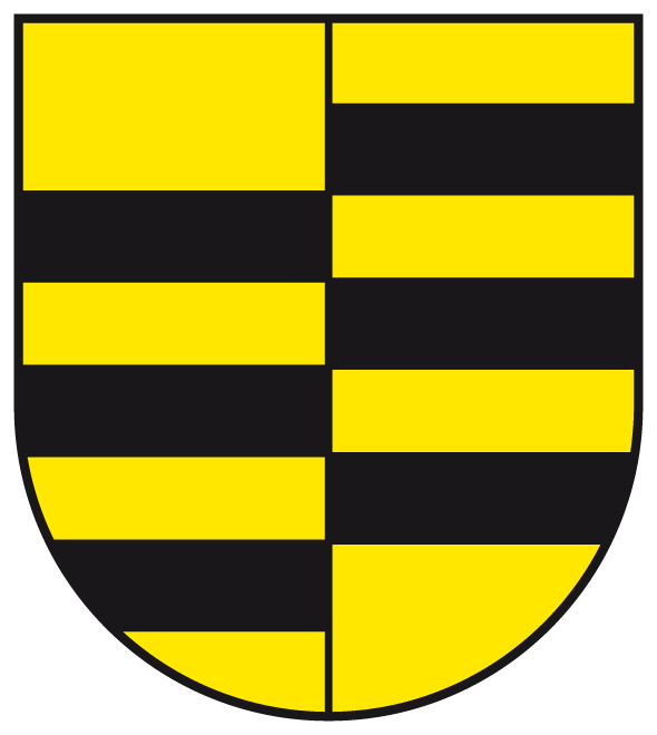 Coat of Arms of Ballenstedt